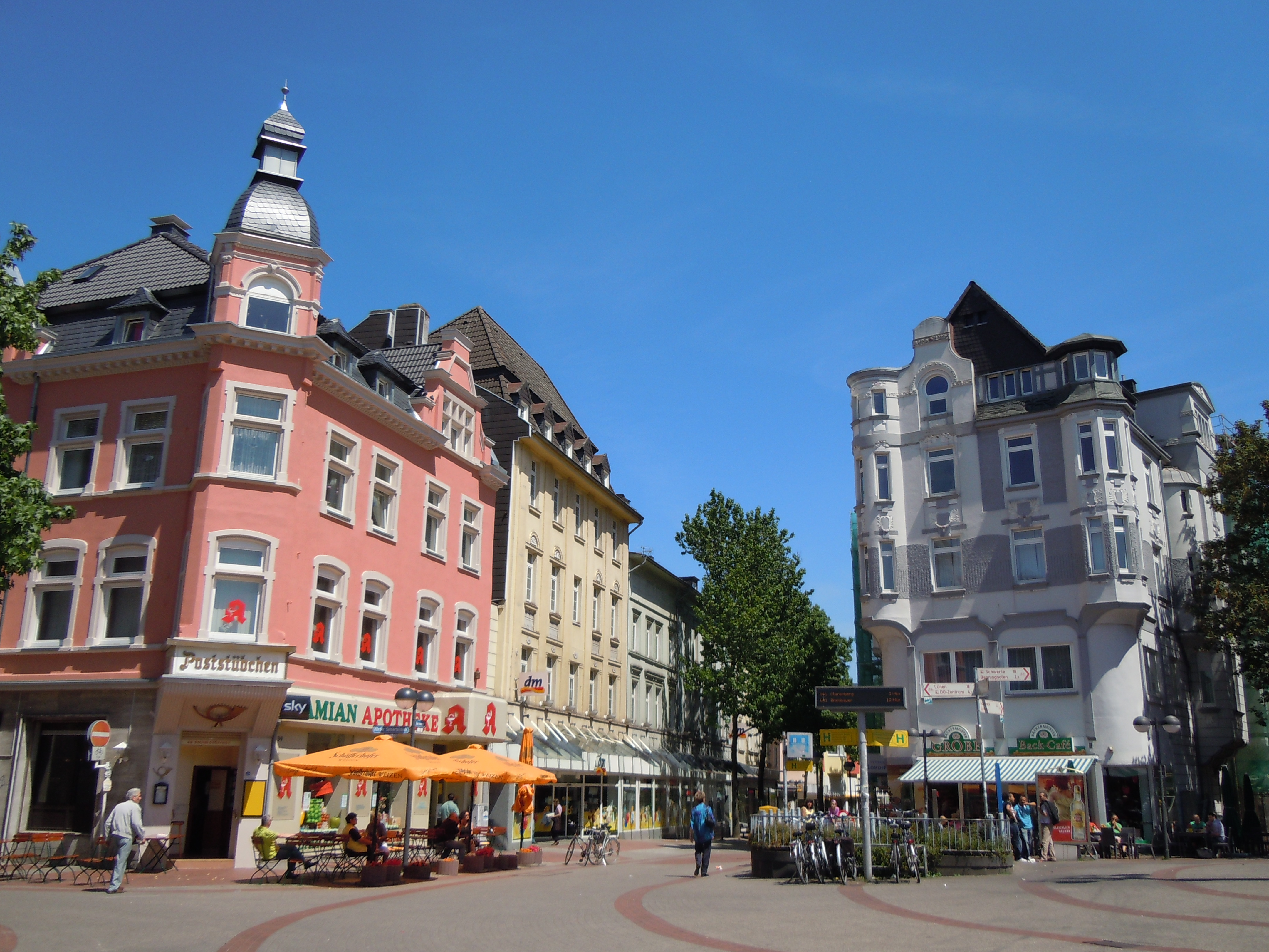 marketplace of Hoerde